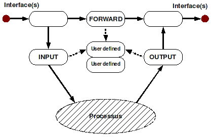 how netfilter works